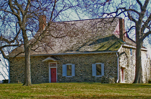 Photographed by Daniel Case on 2006-02-27.